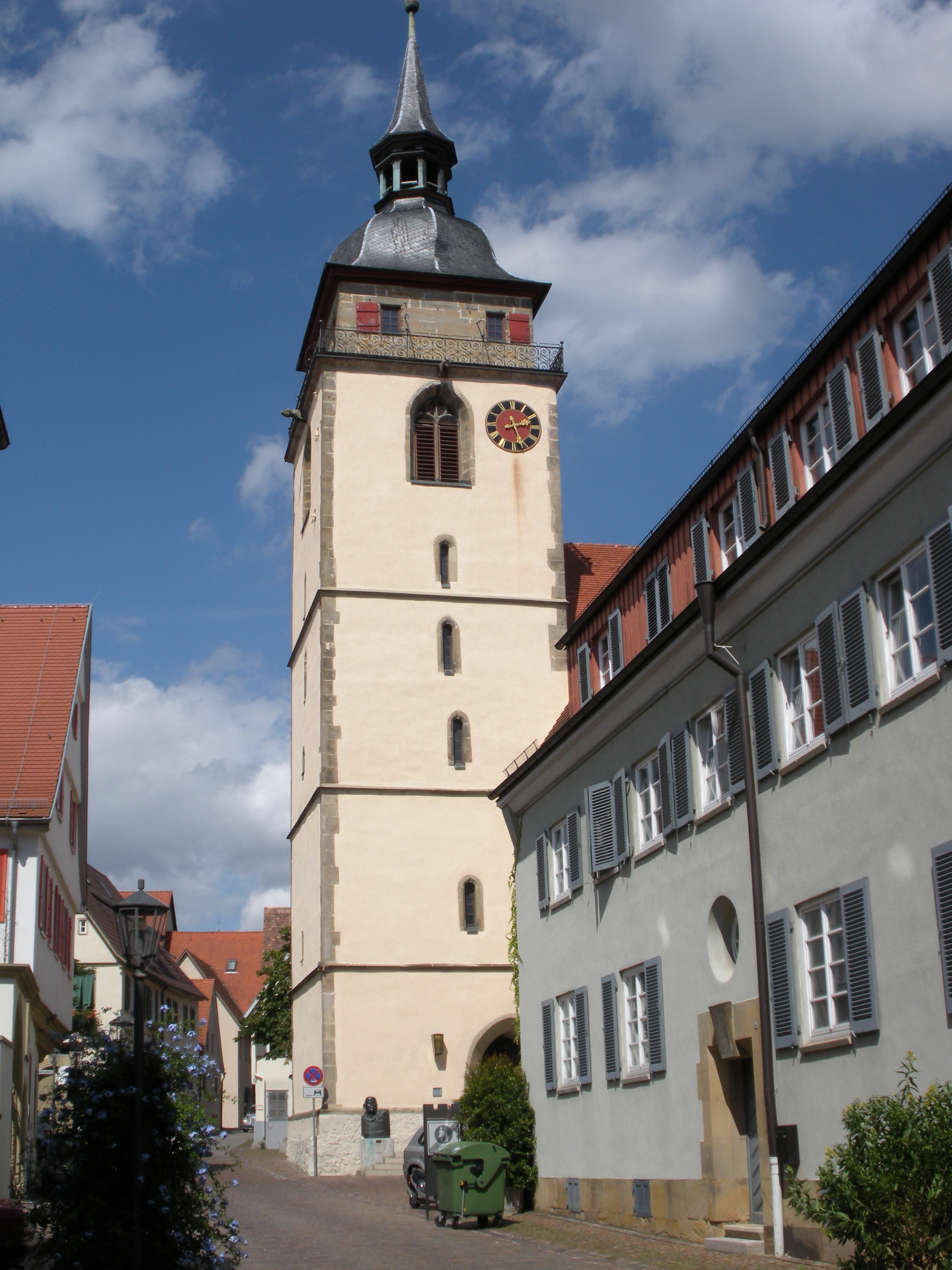 Protestant City-Church in Bietigheim-Bissingen